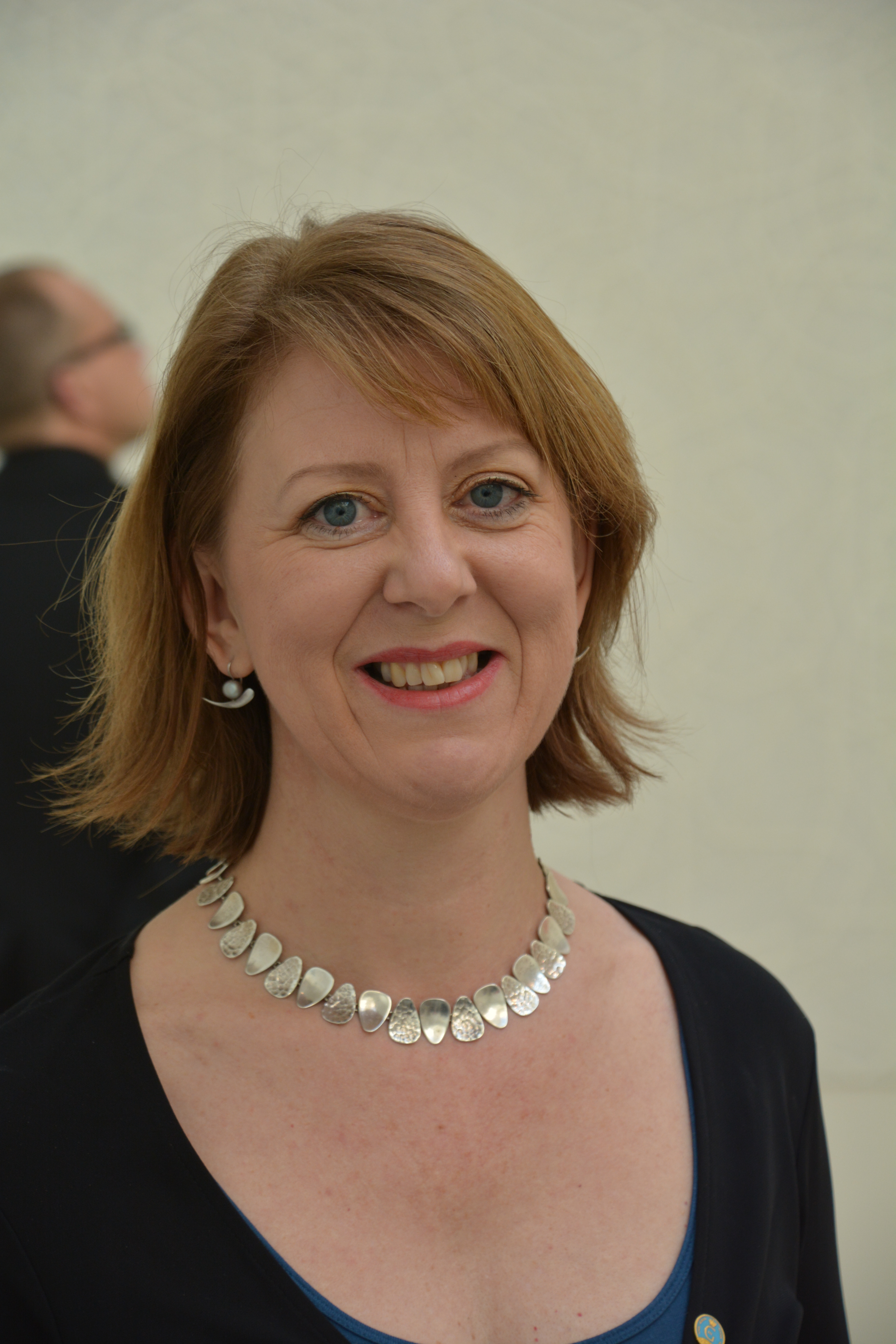 Susanne Rydén, Swedish opera singer